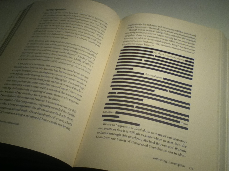 One of two censored sections of the 2012 environmental book Green Illusions by Ozzie Zehner. State laws forced the University of Nebraska Press to black-out sections of the book to be sold in the United States. "Veggie libel laws" enacted in 13 states make it illegal for journalists and authors to criticize the food industry.